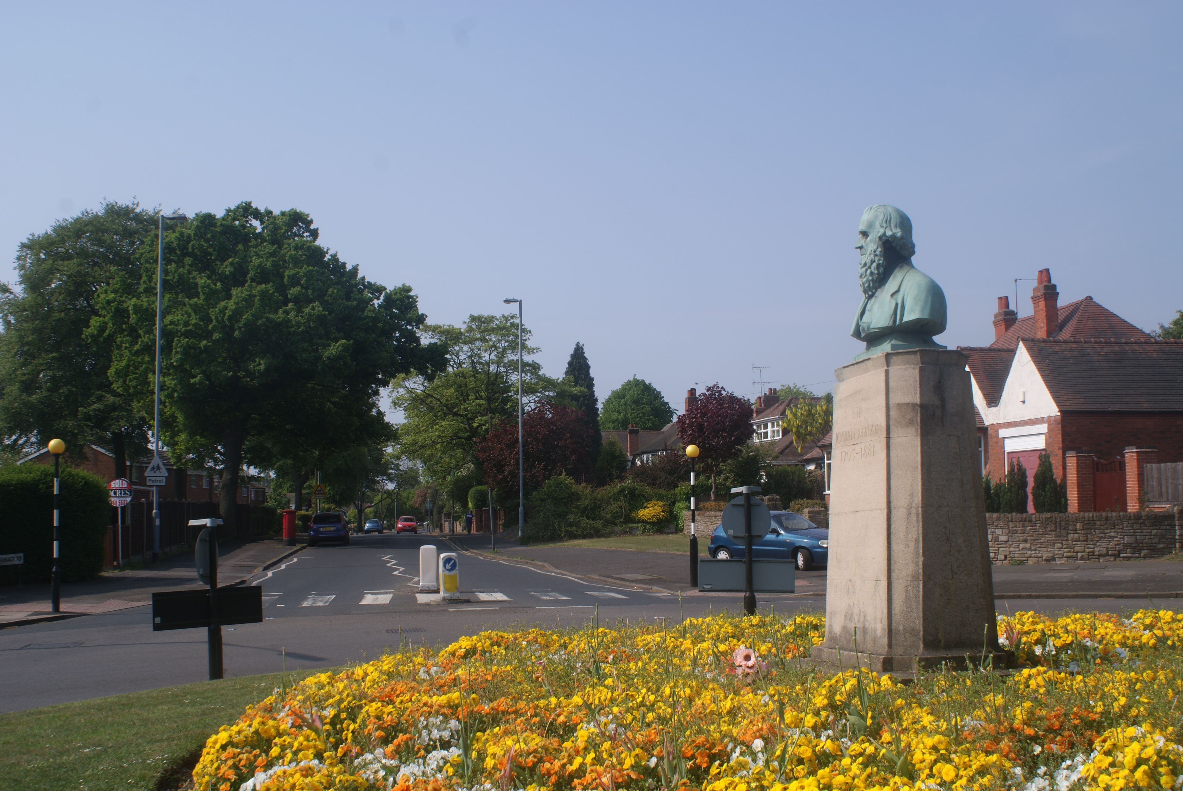 Orphanage Road and bust of Josiah Mason, in Erdington, Birmingham